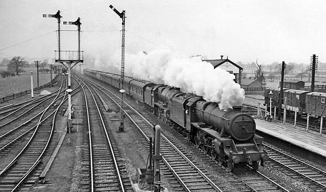 Double-headed Up express passing Rugeley (Trent Valley) Station. View NW, towards Stafford, Crewe etc.; ex-London & North Western, West Coast Main Line, junction of line to Walsall and Birmingham. The speeding train is the 12.50 Bangor to Euston, headed by Stanier Class 5 4-6-0 No. 45045 piloting Rebuilt 'Patriot' 4-6-0 No. 45514 'Holyhead'. The signalbox is Rugeley (TV) No. 2.